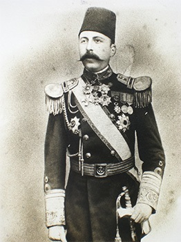 Ottoman Rear Admiral (Mirliva) Osman Pasha (1858-1890), commanding captain of the frigate "Ertugrul"